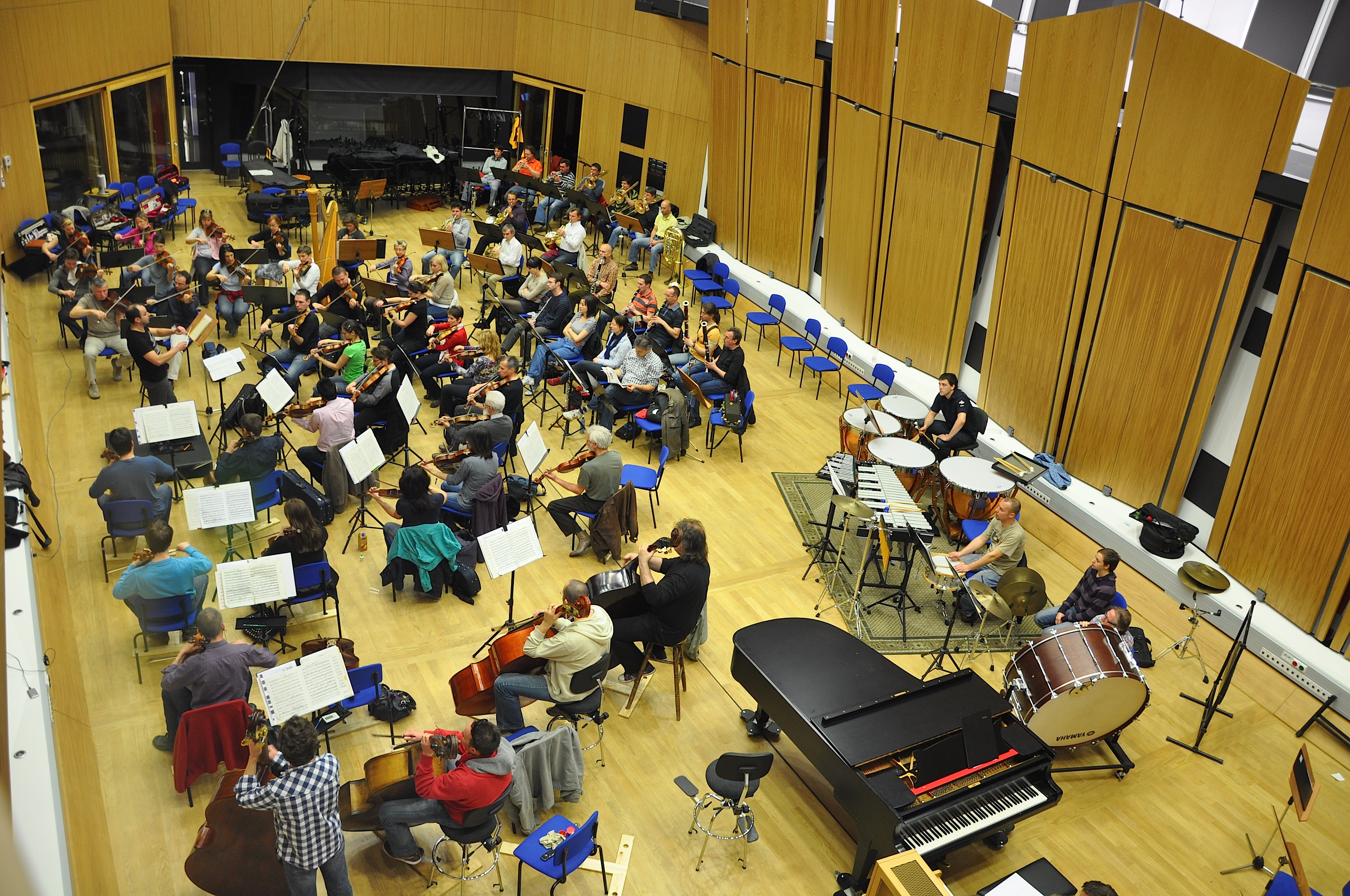 RTV SLovenija Symphony orchestra rehersal studio 26, RTV Slovenija